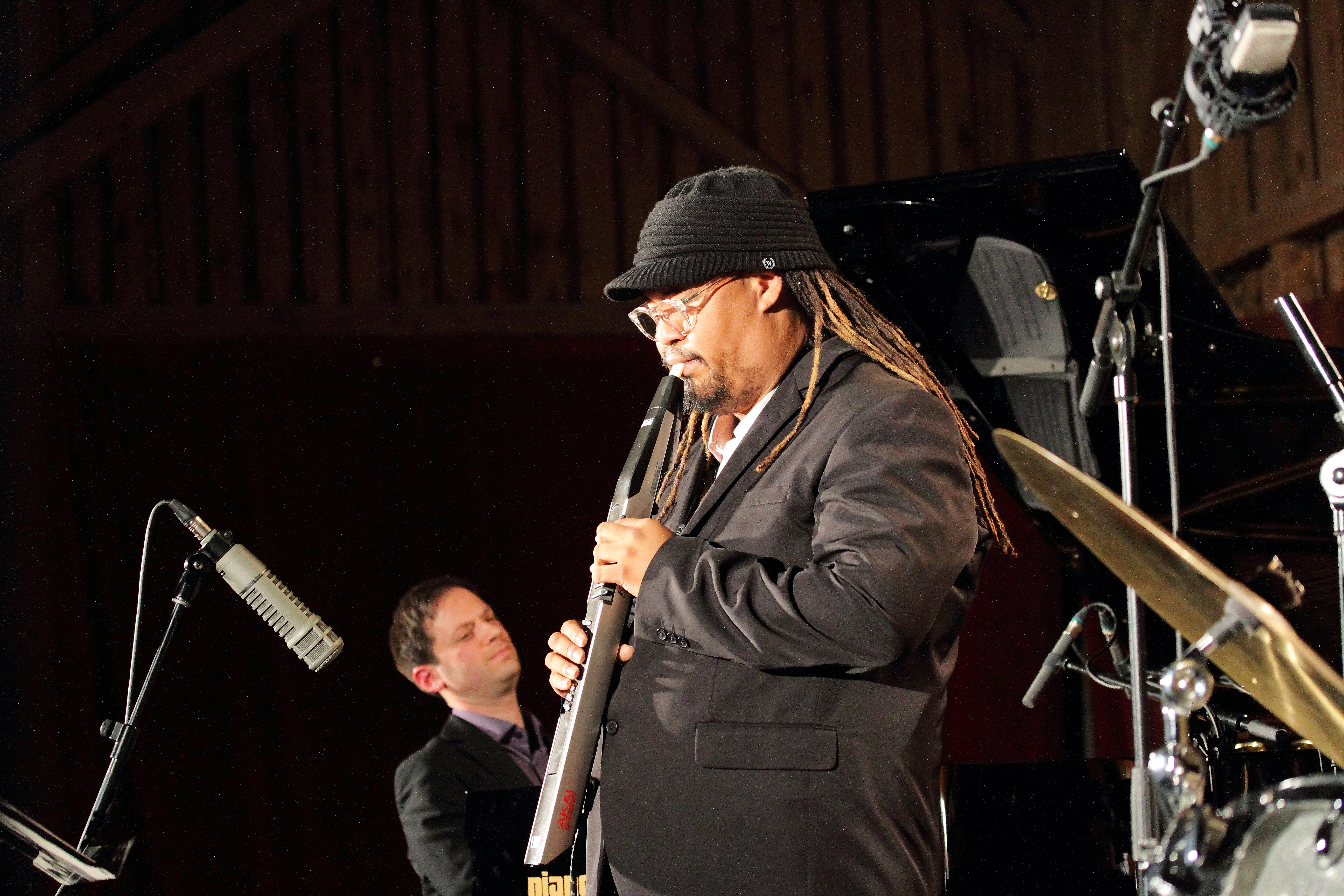 Dayna Stephens and Adam Birnbaum with the Al Foster Quartet at INNtöne Jazzfestival 2016.